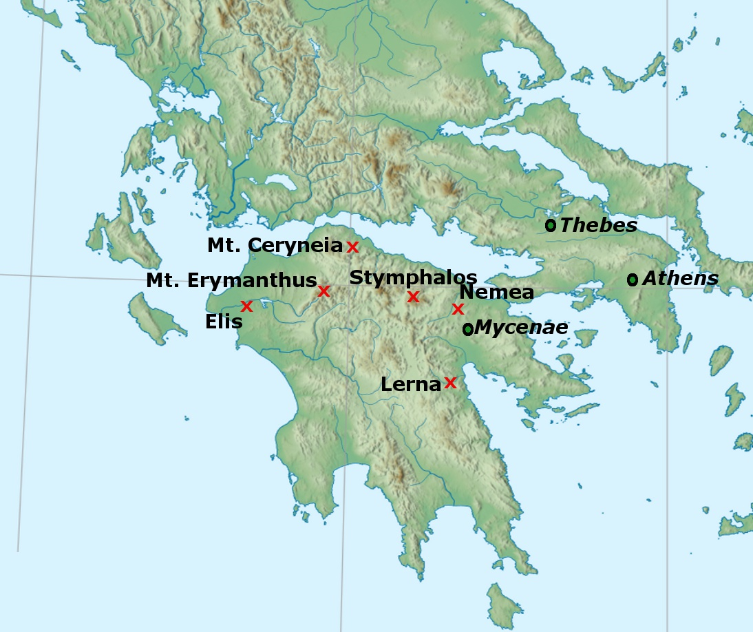 Topographic map of the Peloponnese with the sites of Heracles's first labors marked. This image is a derivative work of the following images: File:Greece_large_topographic_basemap.svg licensed with PD-self